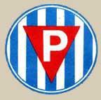 Vinkel - a sign in the form of a triangle of the concluded concentration camps, sewed above camp number (Polish vinkel)